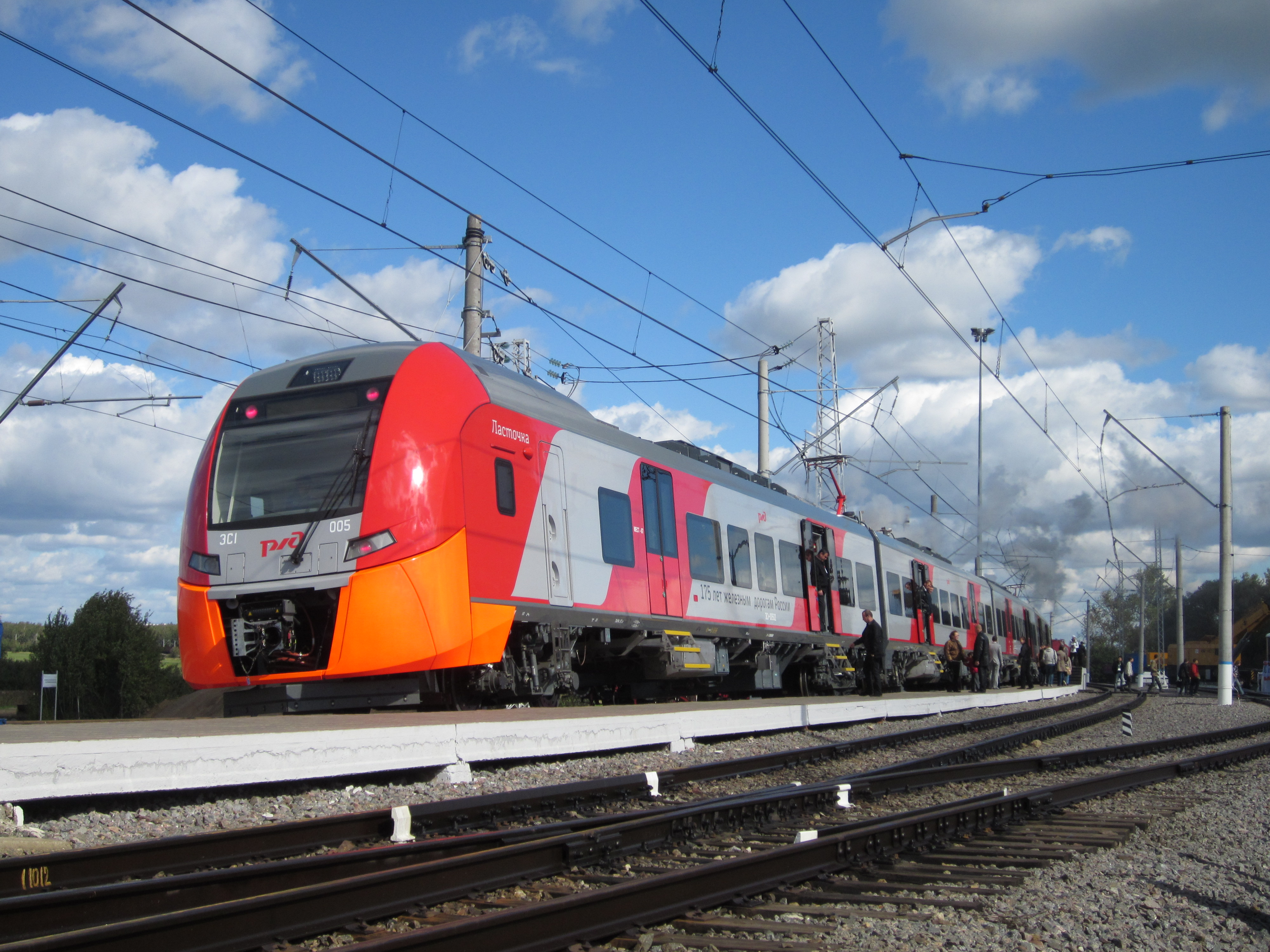 Electric multiple unit ES1-005 at test railroad ring in Scherbinka